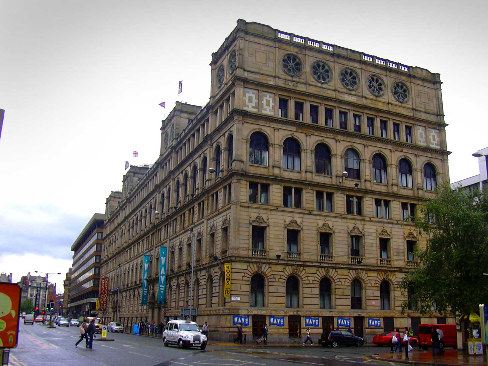 Exterior of the Britannia Hotel, Manchester, formerly Watts Warehouse.